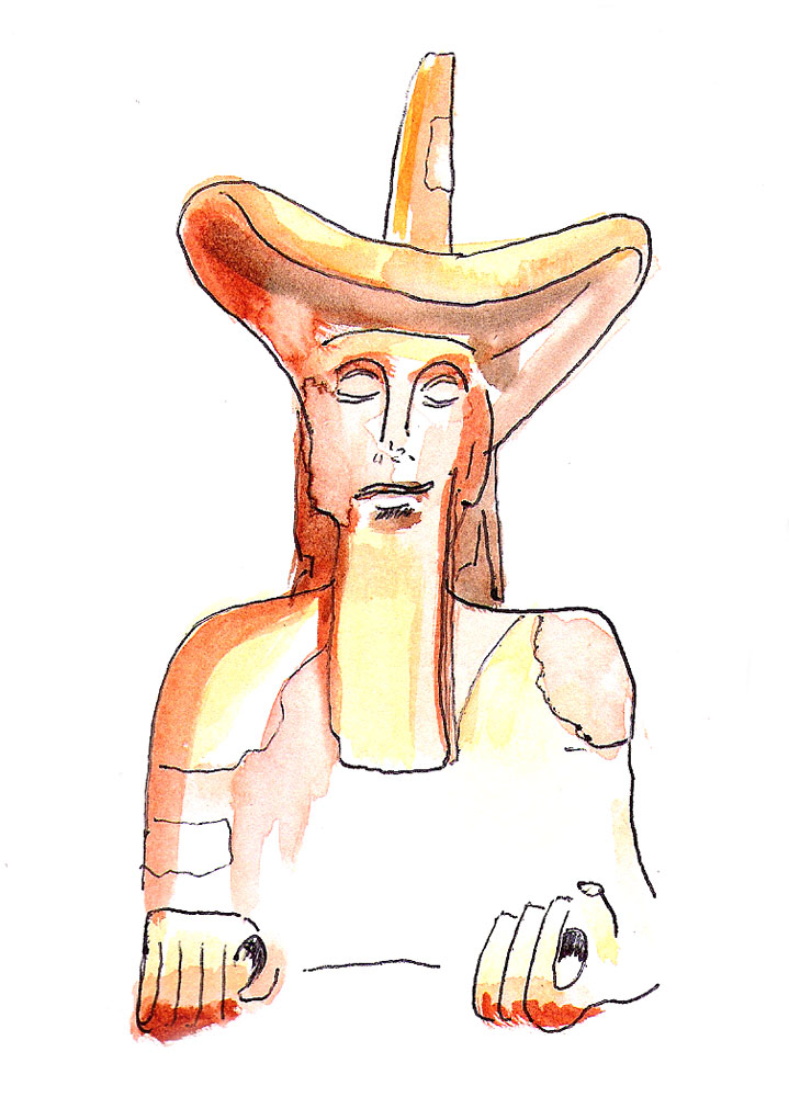 Sketch of cowboy of Murlo, raised on invitation in Antiquarium di Poggio Civitate